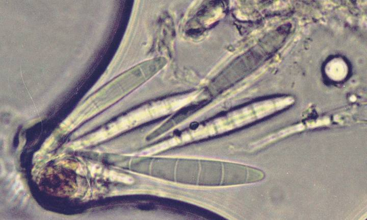 Scoliciosporum chlorococcum (Stenh.) Vězda, 1978 Photograph of a group of spores from Scoliciosporum chlorococcum taken through a compound microscope, x1000. Spores are 7-septate and measure approximately 44 x 6 microns. S. chlorococcum was growing on the trunk of a small Red Maple (Acer rubrum L.) along a fire road at Liberty Reservoir off Wards Chapel Road, Baltimore County, Maryland, USA; collected and identified by E.C. Uebel (No. U-242, 10 Jul 2001).